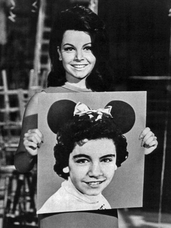 Publicity photo of American entertainer Annette Funicello (circa 1975) holding a photograph of herself as a child star on The Mickey Mouse Club (circa 1955–1958). There is no copyright information provided with regards to the 1950s photograph the subject is holding, but the inclusion of the 1950s photo within the image is believed to qualify for use on Wikimedia Commons under the terms of de minimis.